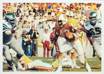 A football card from the 1986 Jeno's Pizza NFL football card stickers set of Tampa Bay Buccaneers' running back Ricky Bell rushing the ball during the 1979 NFC Divisional Playoff Game on December 29, 1979. The card is numbered #19 in the set. The back of the card reads: BELL SETS A PLAYOFFS RECORDS The late Ricky Bell charges into the Philadelphia Eagles' defense on one of his playoff-record 38 carries, as he leads the Tampa Bay Buccaneers past the Philadelphia Eagles in their 1979 NFC Divisional Playoff Game 24-17. Bell ran for 142 yards and 2 touchdowns, after rushing for 1,263 yards in the regular season.